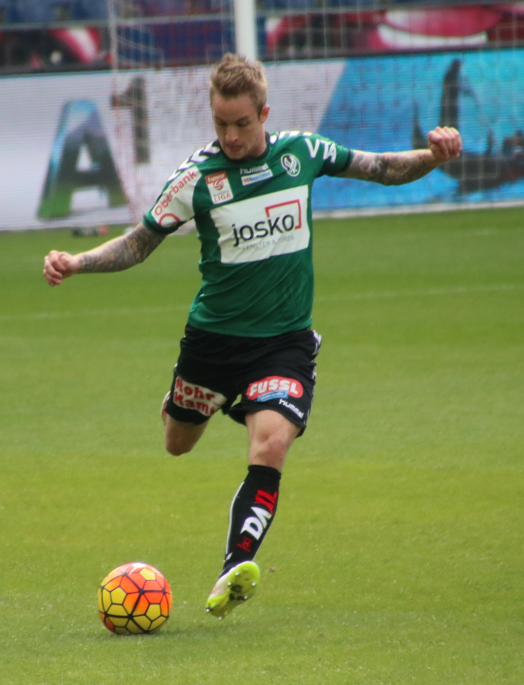 league match Austrian Bundesliga